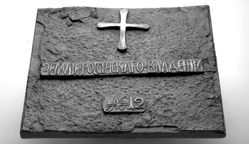 The only know Russian "Possession Plate" found in Alaska at the site of a 1799 settlement near Sitka, Alaska. The location it was found is now a National Historic Landmark known as the Old Sitka Site.